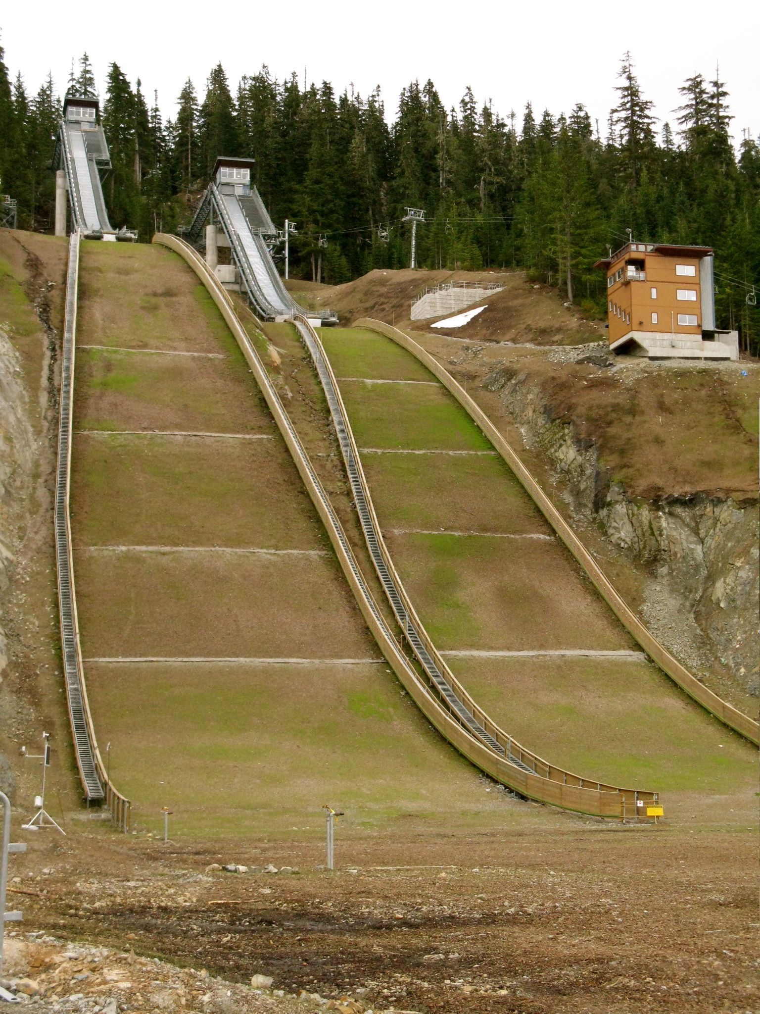 Whistler Olympic Park ski jumps at Callaghan Valley (Olympic Winter Games 2010)